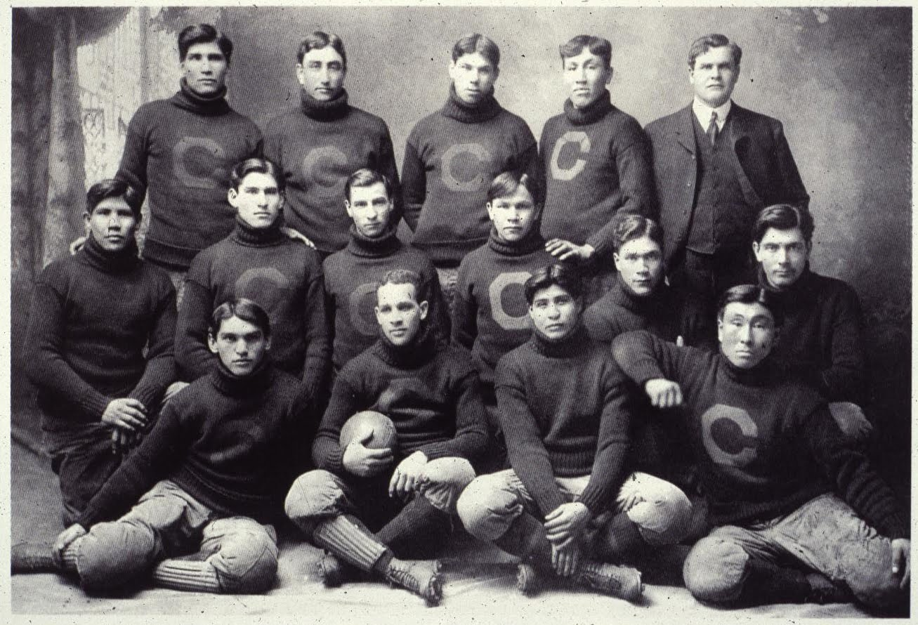 1903 Carlisle Indians football team. Back row, left to right, Lubo, Dillon, Bowen, Williams, Warner; second row, Flores, Sheldon, Matthews, Charles, Exendine, White; bottom row, Jude, Johnson, Hendricks and Shouchuk